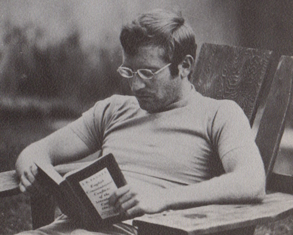 Photograph of Shimer College student reading Joseph Robson Tanner's English Constitutional Conflicts of the Seventeenth Century while seated in an outdoor wooden chair on the school's original campus in Mount Carroll. Published in Shimer's 1973-1974 catalog, which does not contain a copyright notice. The school also did not register or assert copyright thereafter.